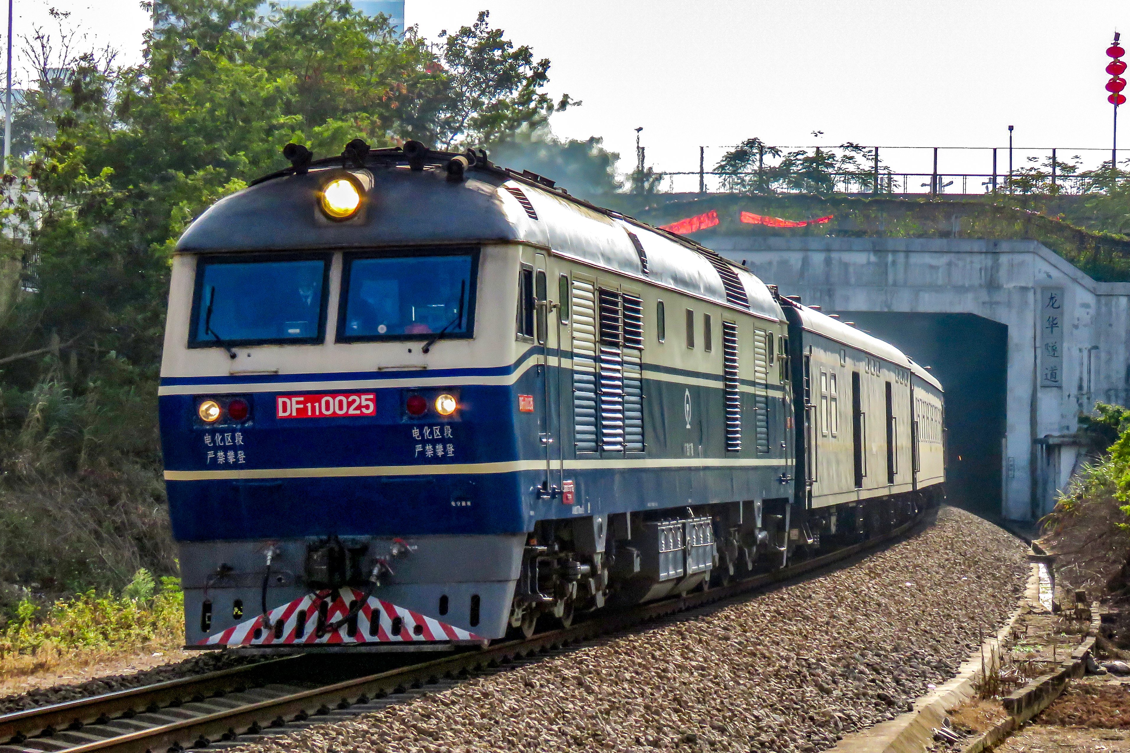 K238 to Taiyuan, this time not a DF4B.